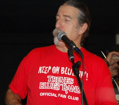 Fabio Treves in concert at "Muddy Waters", Calvari Italy